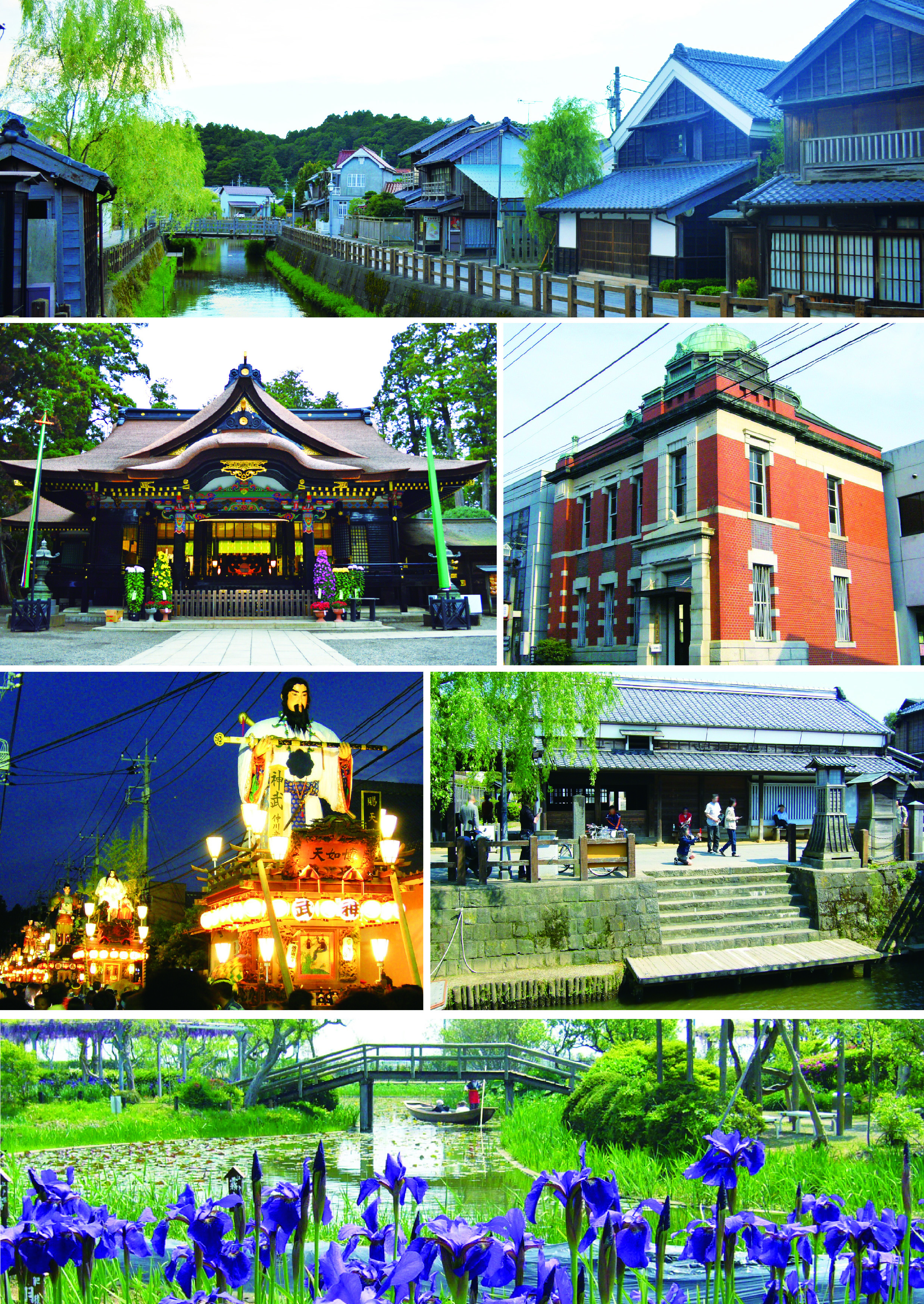 Katori montage.jpg